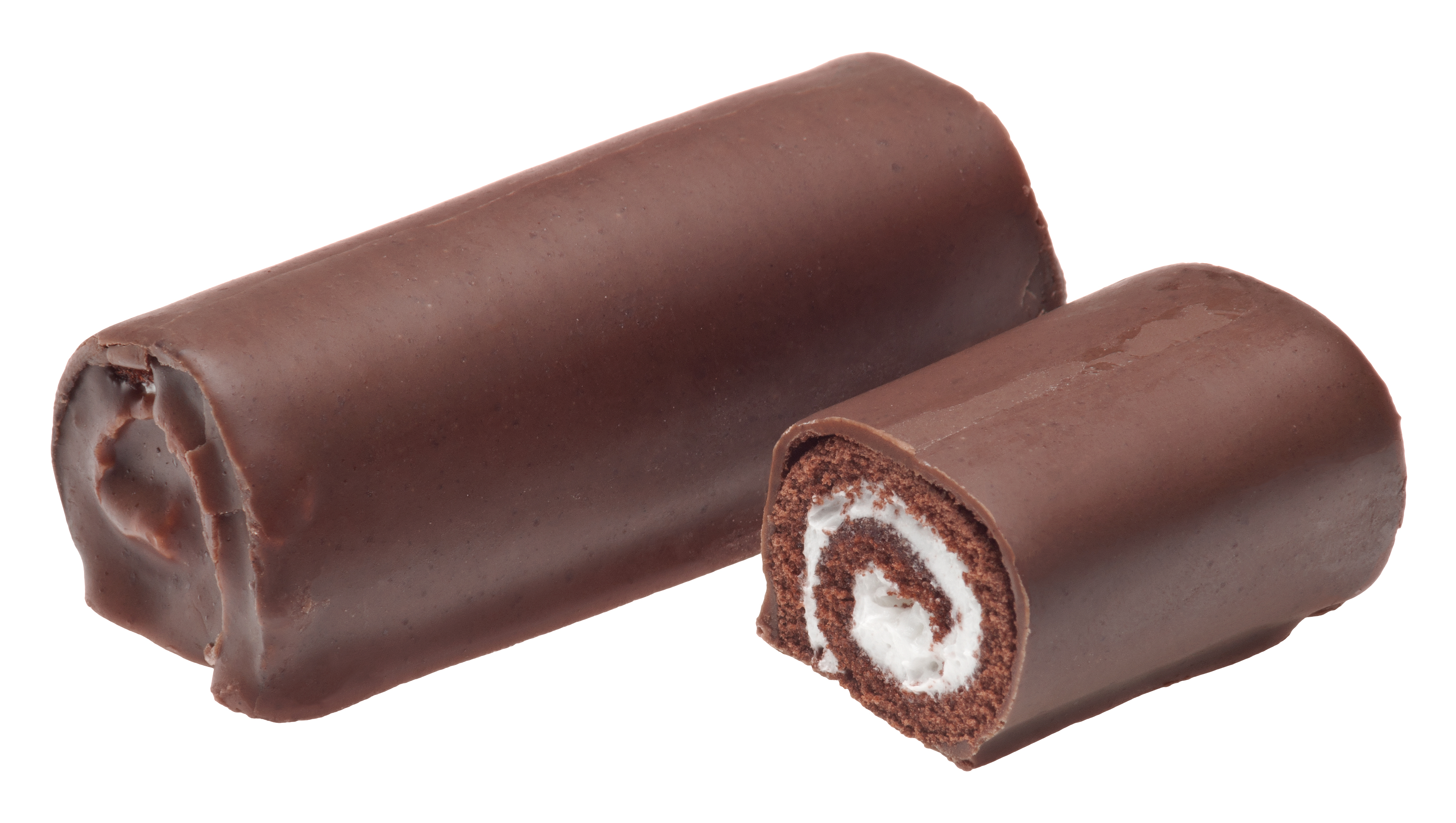 Little Debbie Swiss Cake Rolls, made by McKee Foods.